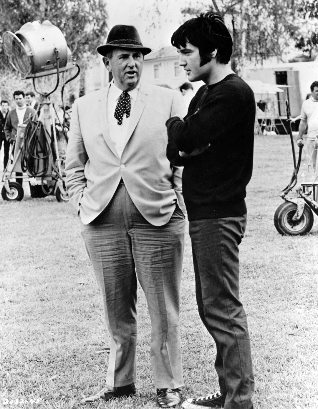 Elvis Presley and Colonel Tom Parker, 1969